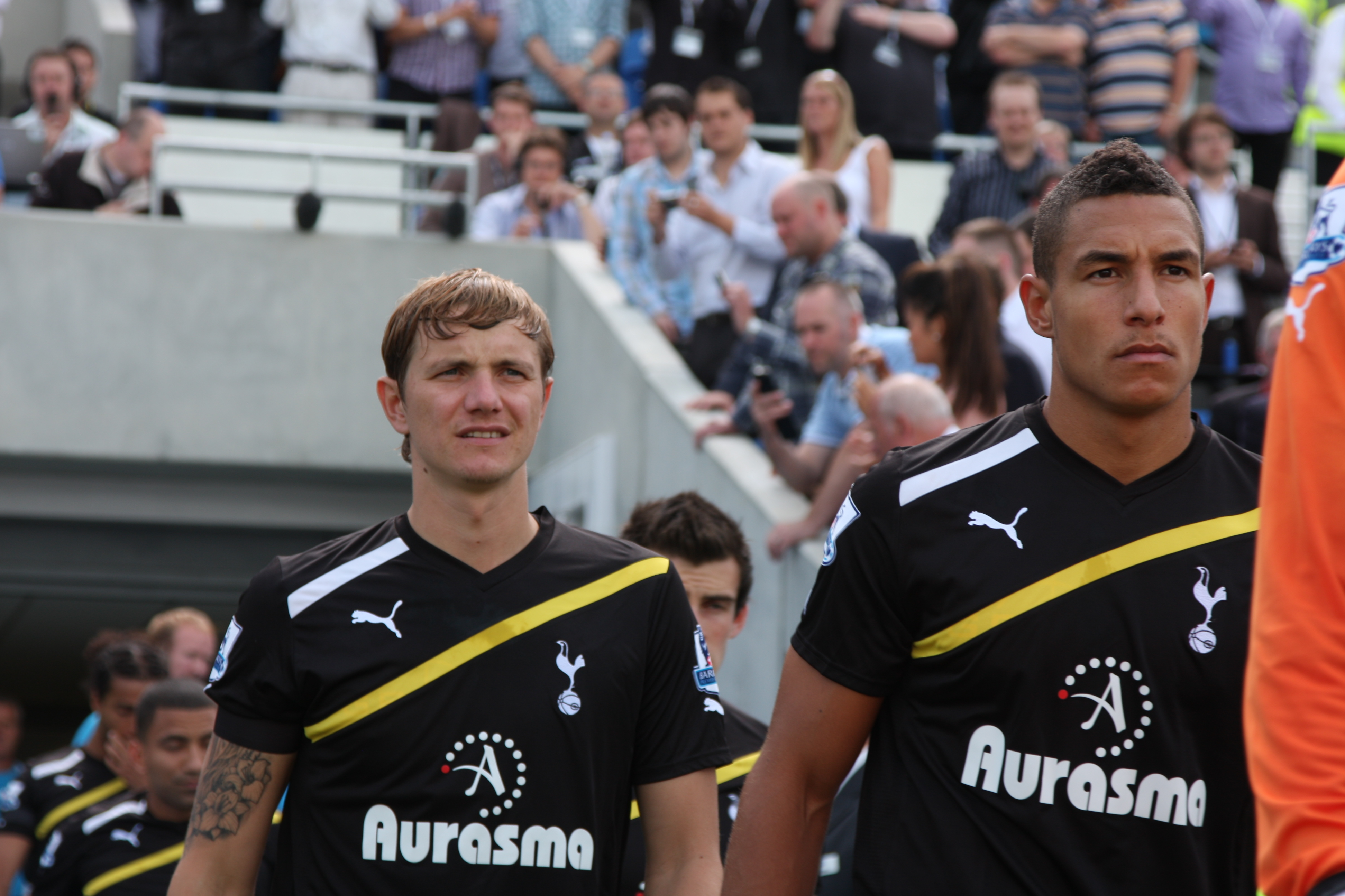 Roman Pavlyuchenko and Jake Livermore of Tottenham Hotspur